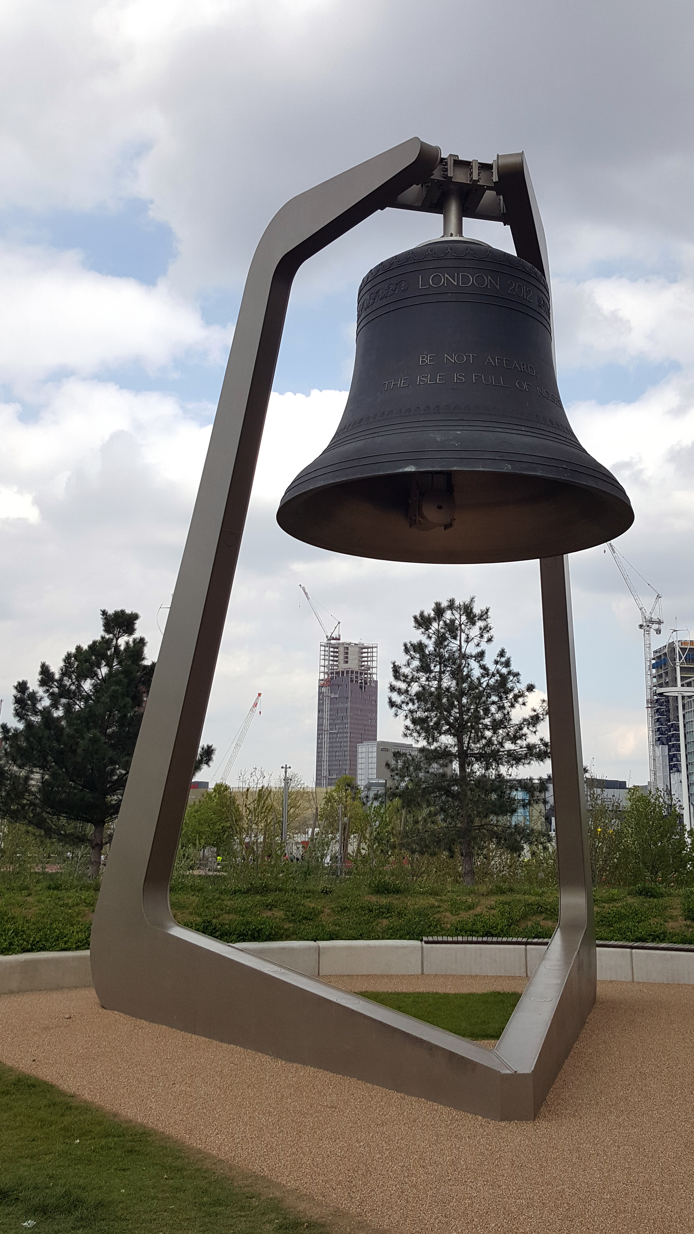 The Olympic Bell from the London 2012 Olympics opening ceremony. Now installed just outside the stadium in Queen Elizabeth Olympic Park.